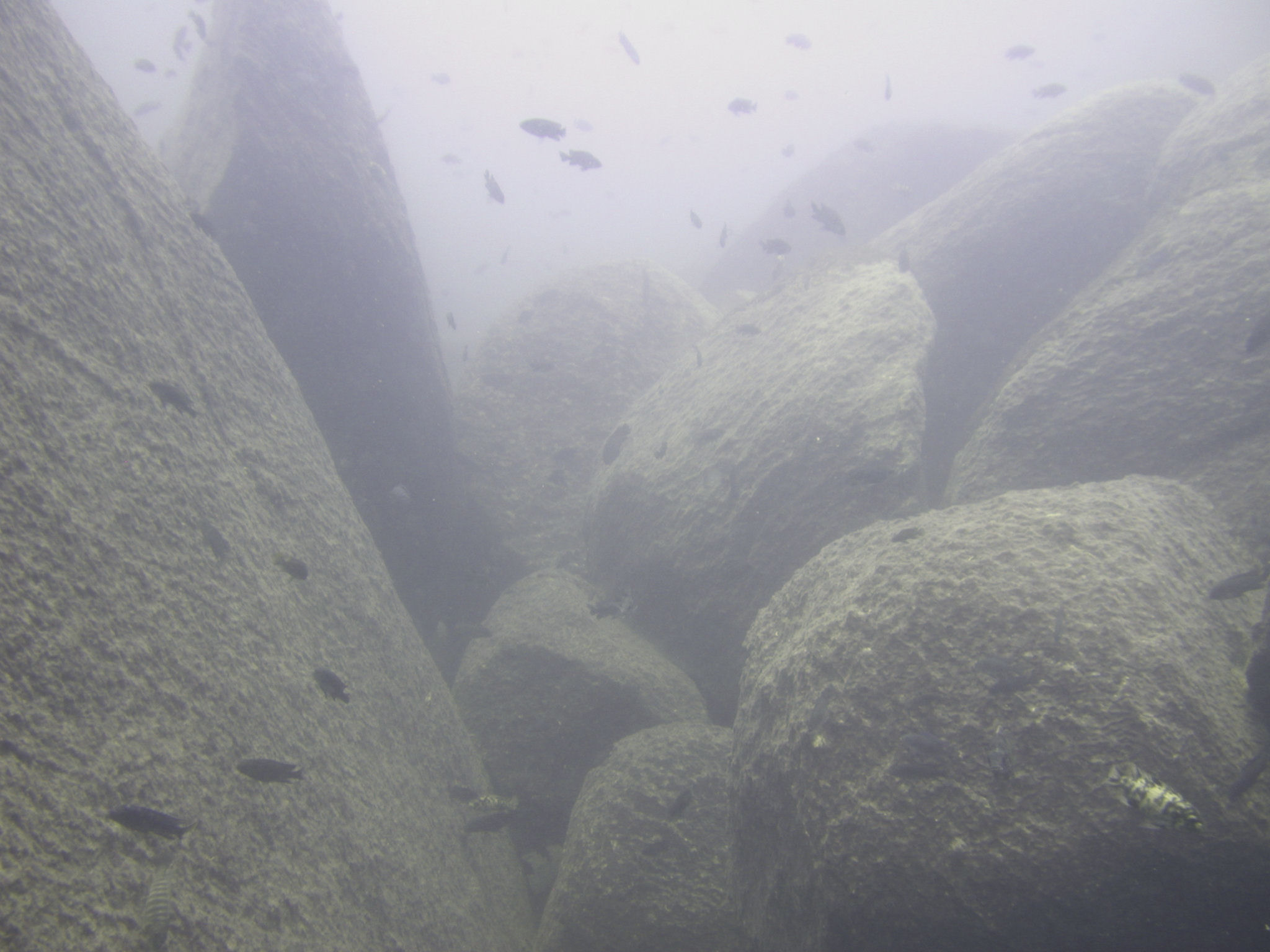 Underwater capture of the Taiwanee reef in Lake Malawi.